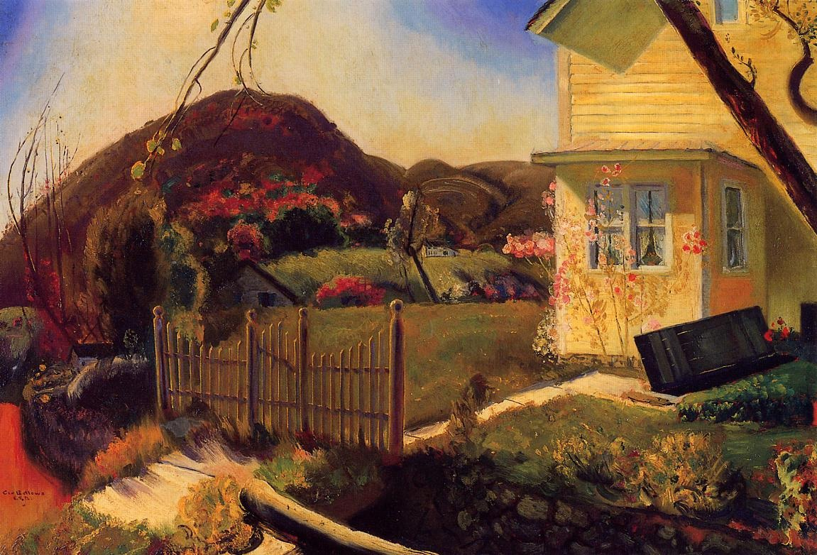 George Bellows's art